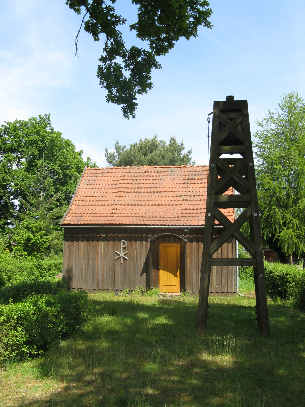 Church in Schwanheide, Mecklenburg-Vorpommern, Germany